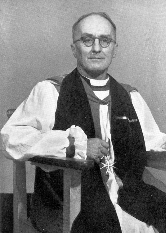 Alfred Morris Gelsthorpe (1892-1968), who became the first Bishop of Sudan in 1945. All possible attempts have been made online and in libraries to ascertain authorship and copyrights to this image, and none have been found.